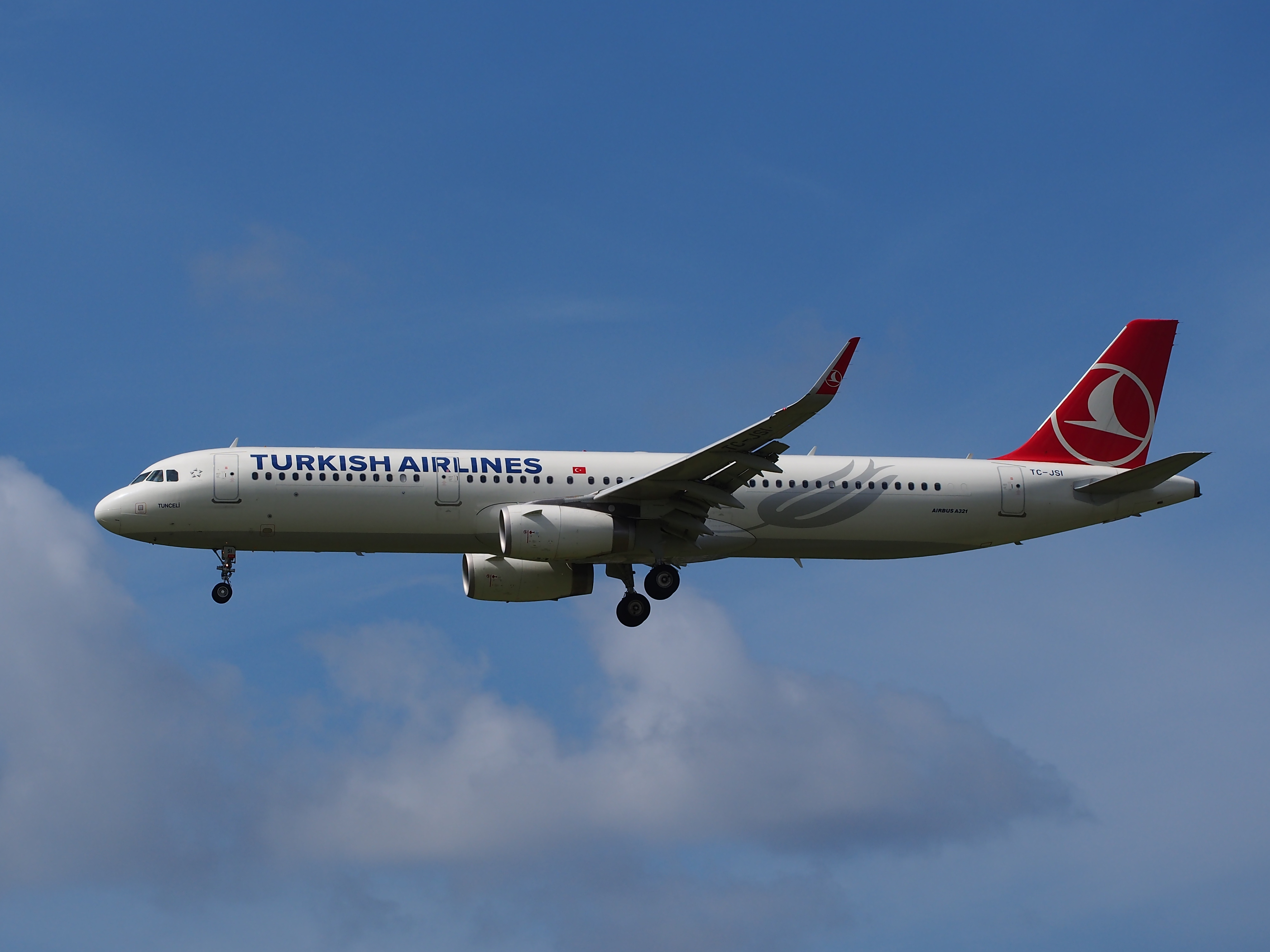 Photographed at Schiphol (AMS - EHAM), The Netherlands.